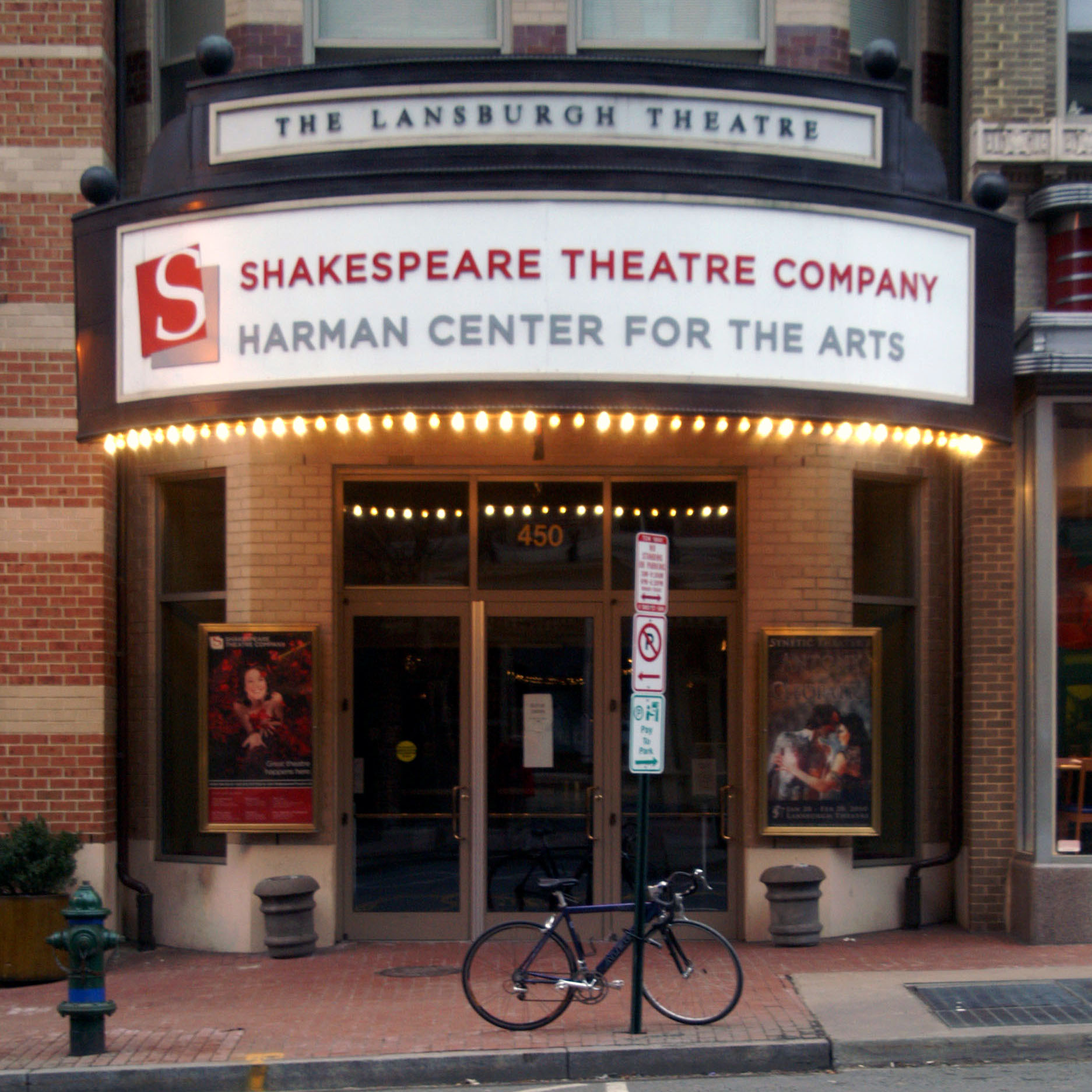 The Harman Center for the Arts Lansburgh Theatre in Washington DC